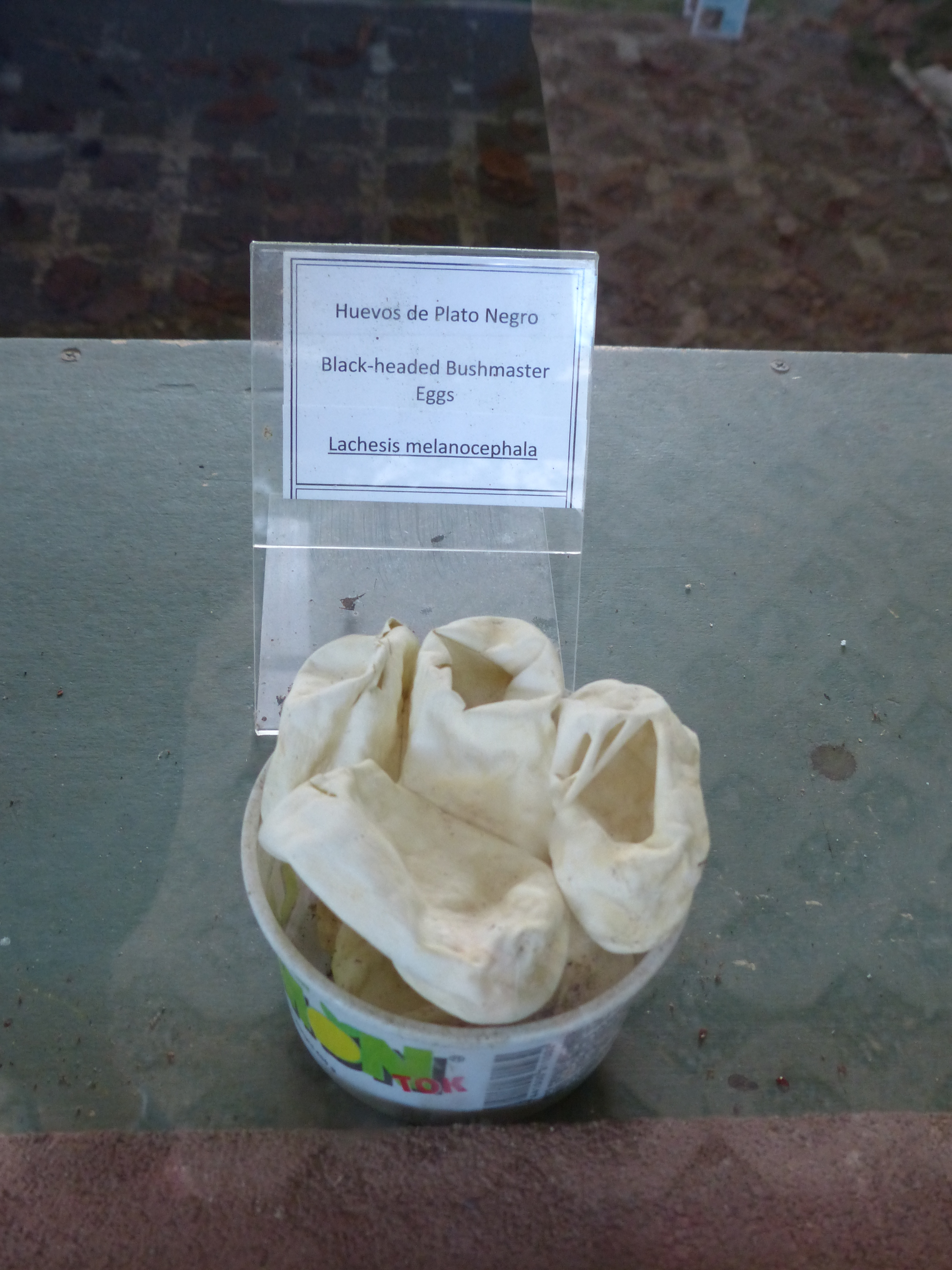 Lachesis melanocephala eggs